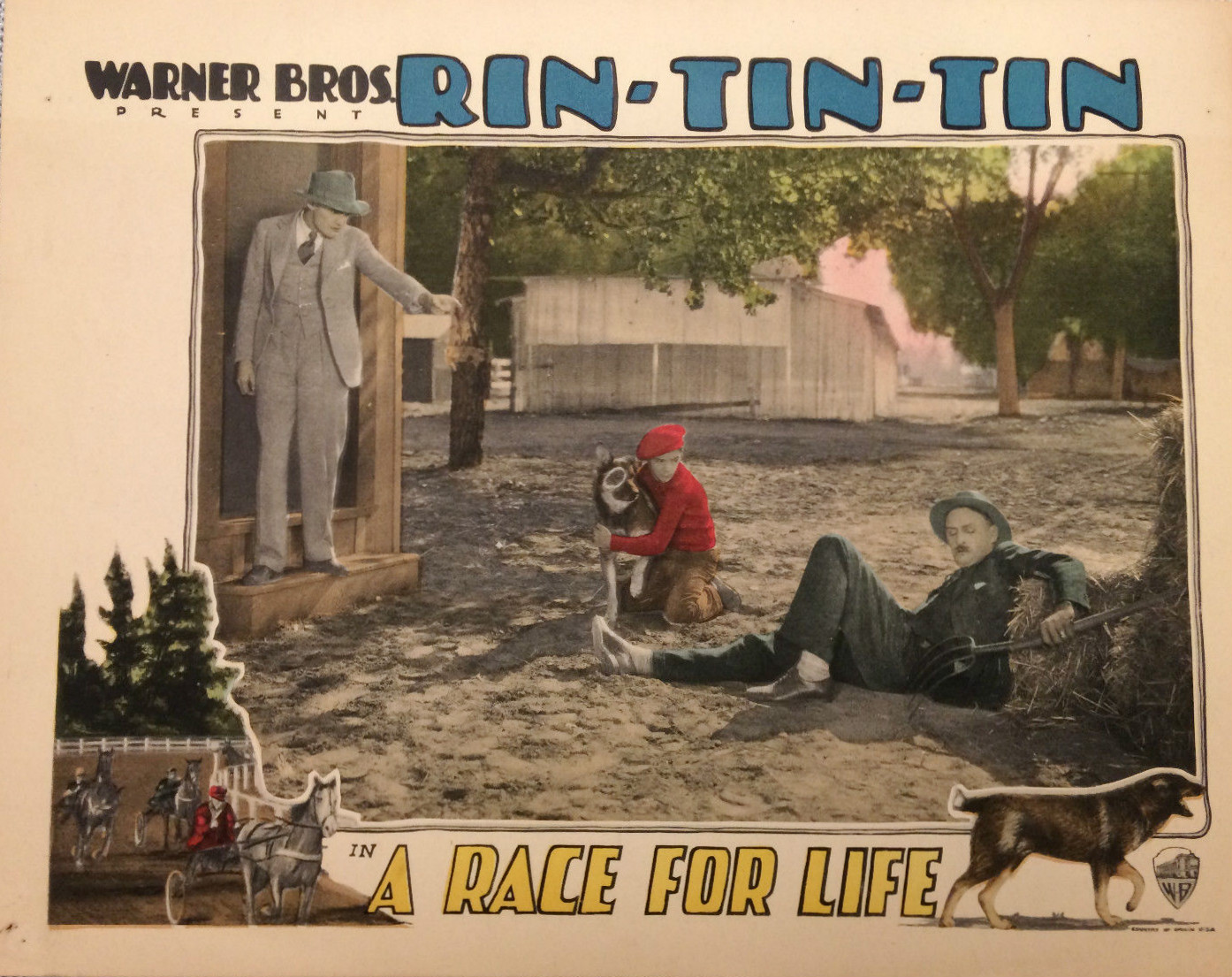 Lobby card for the American drama film A Race for Life (1928).